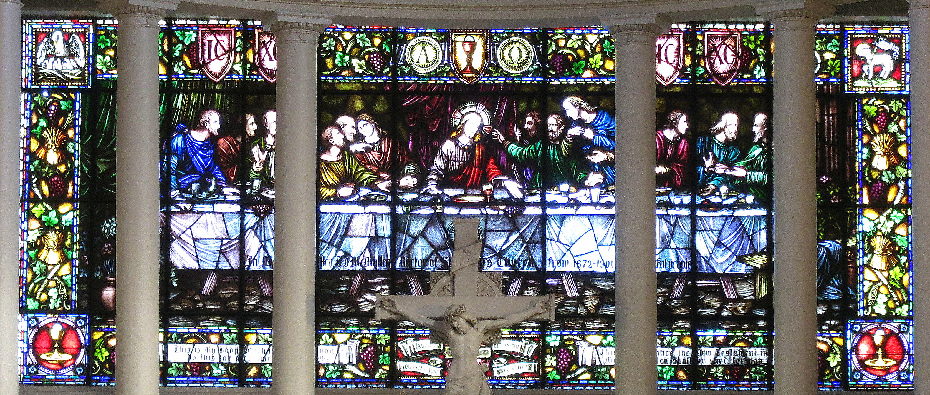 Church of Saint Mary (Richmond, Indiana) - stained glass, the Last Supper